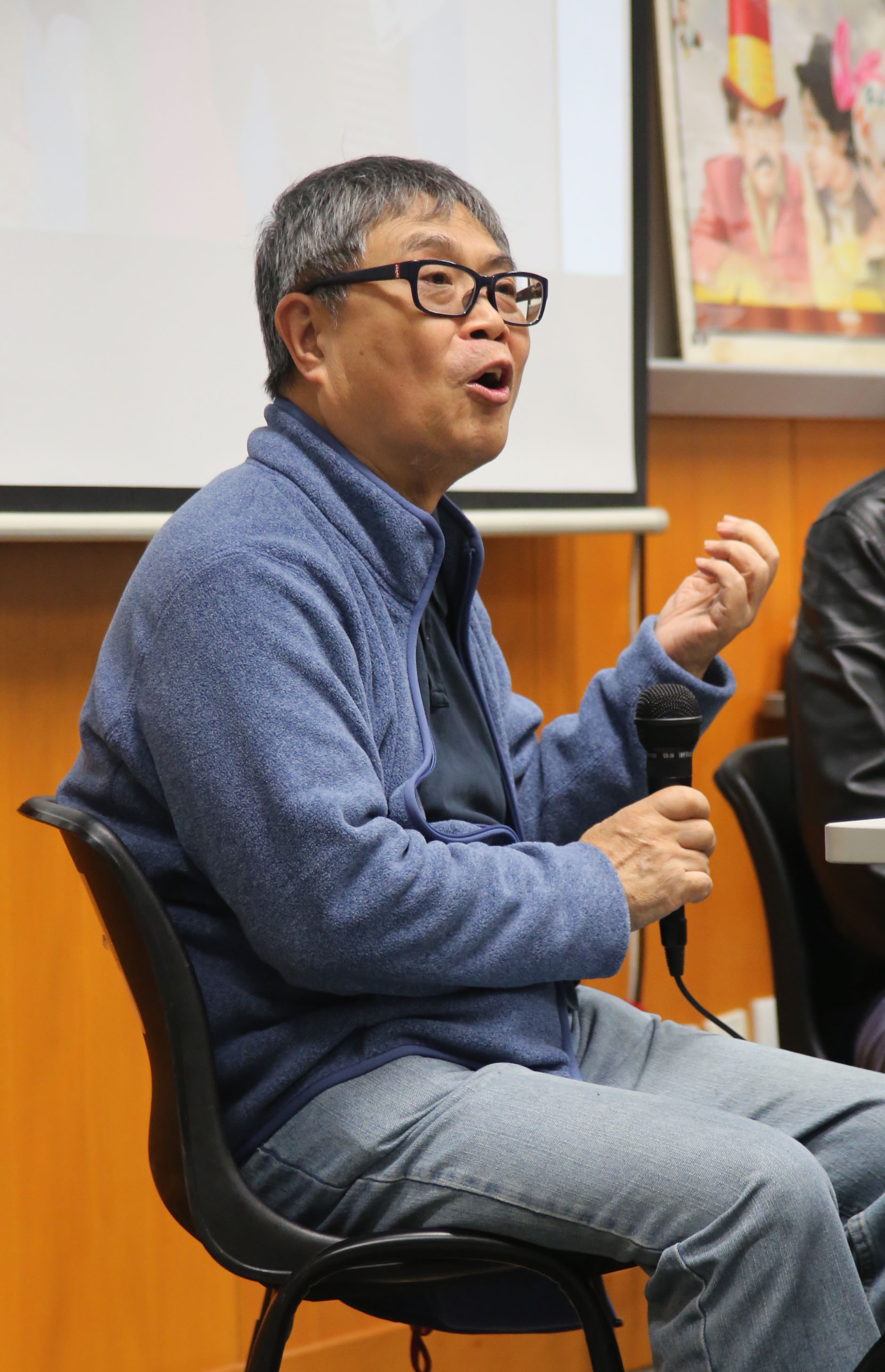 Picture of Mr Yuen Tai Yung during a seminar in Dec 2015